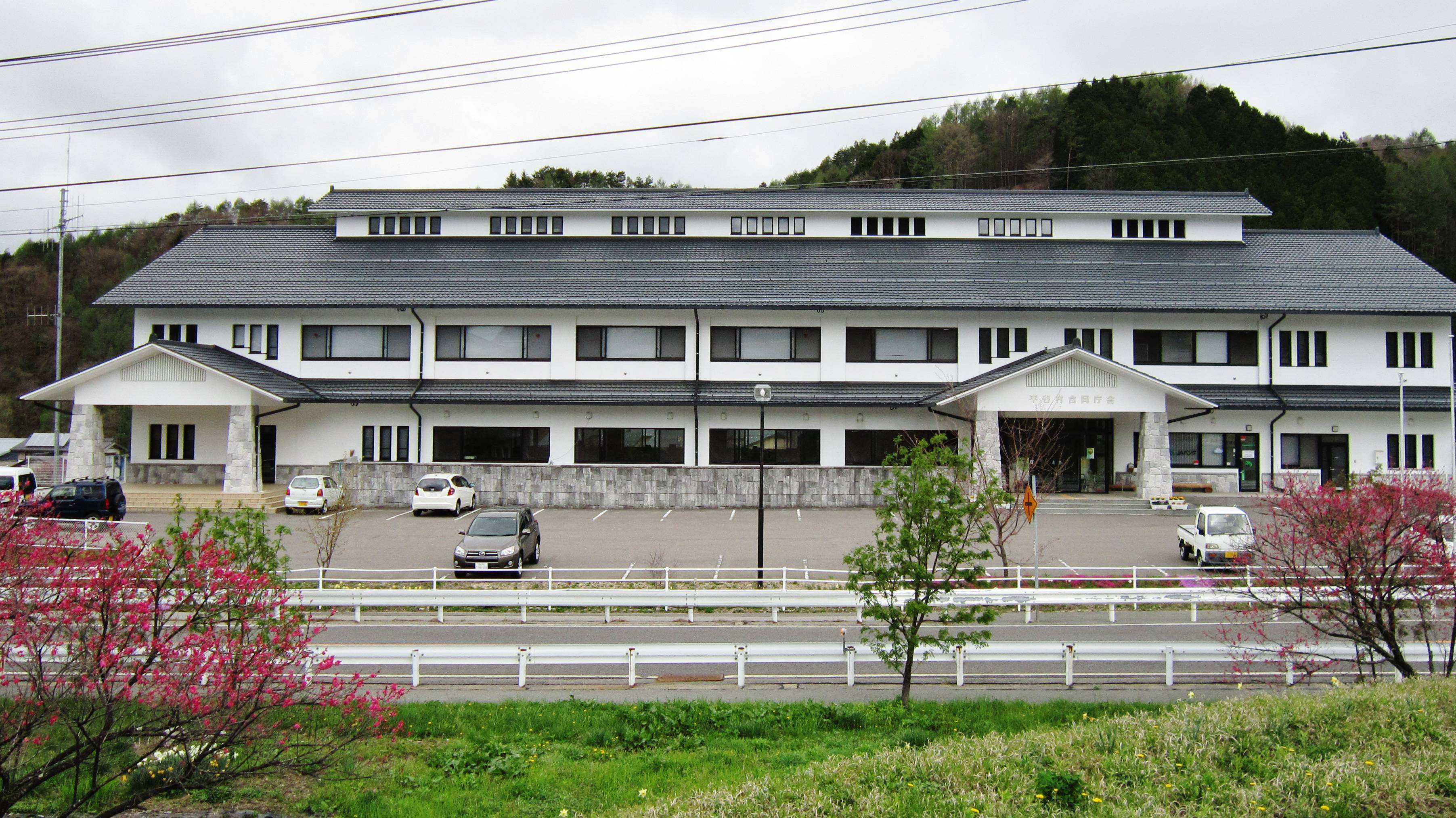 Hiraya village office.